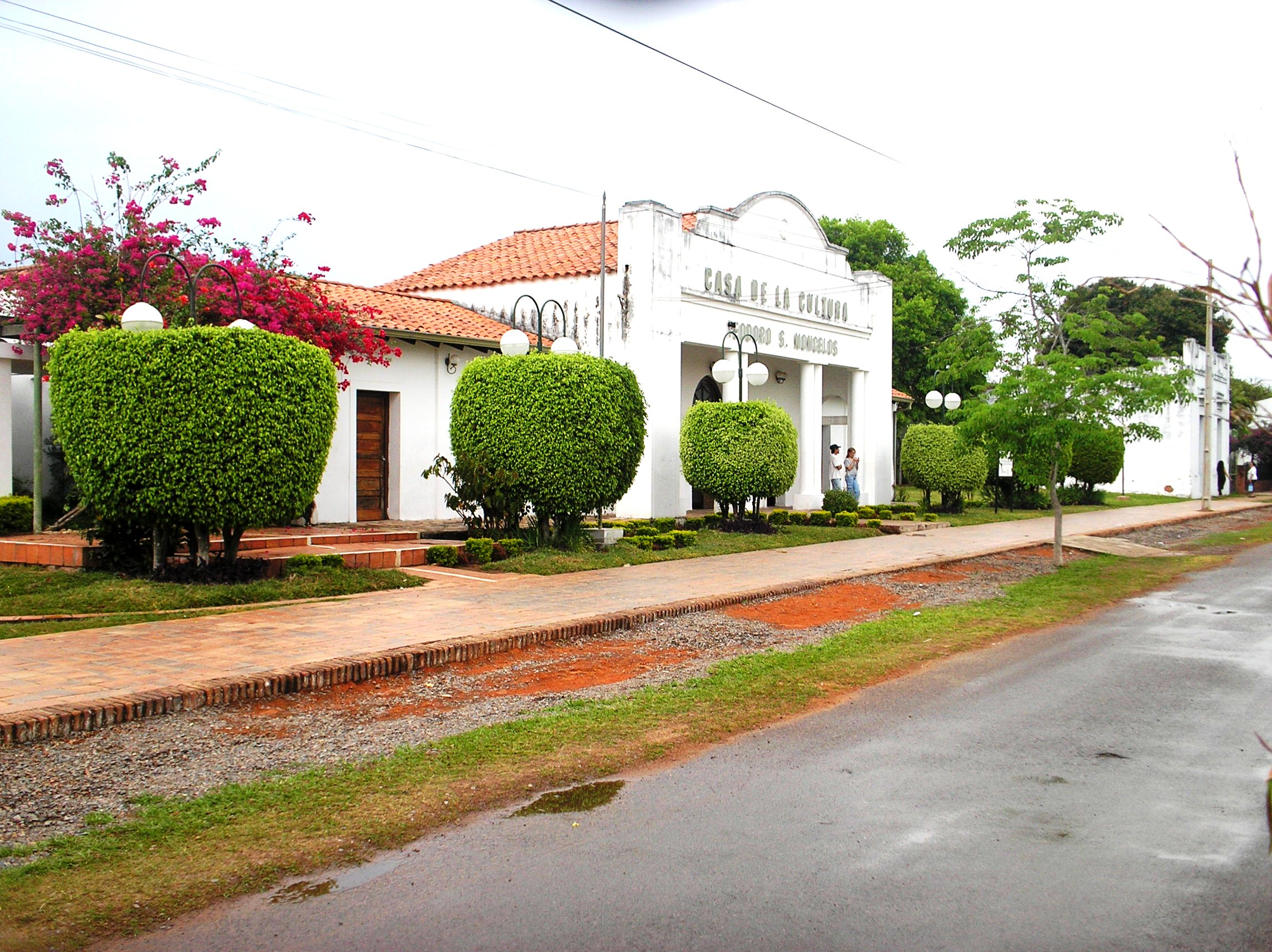 House of Culture and mausoleum of Teodoro S. Mongelos